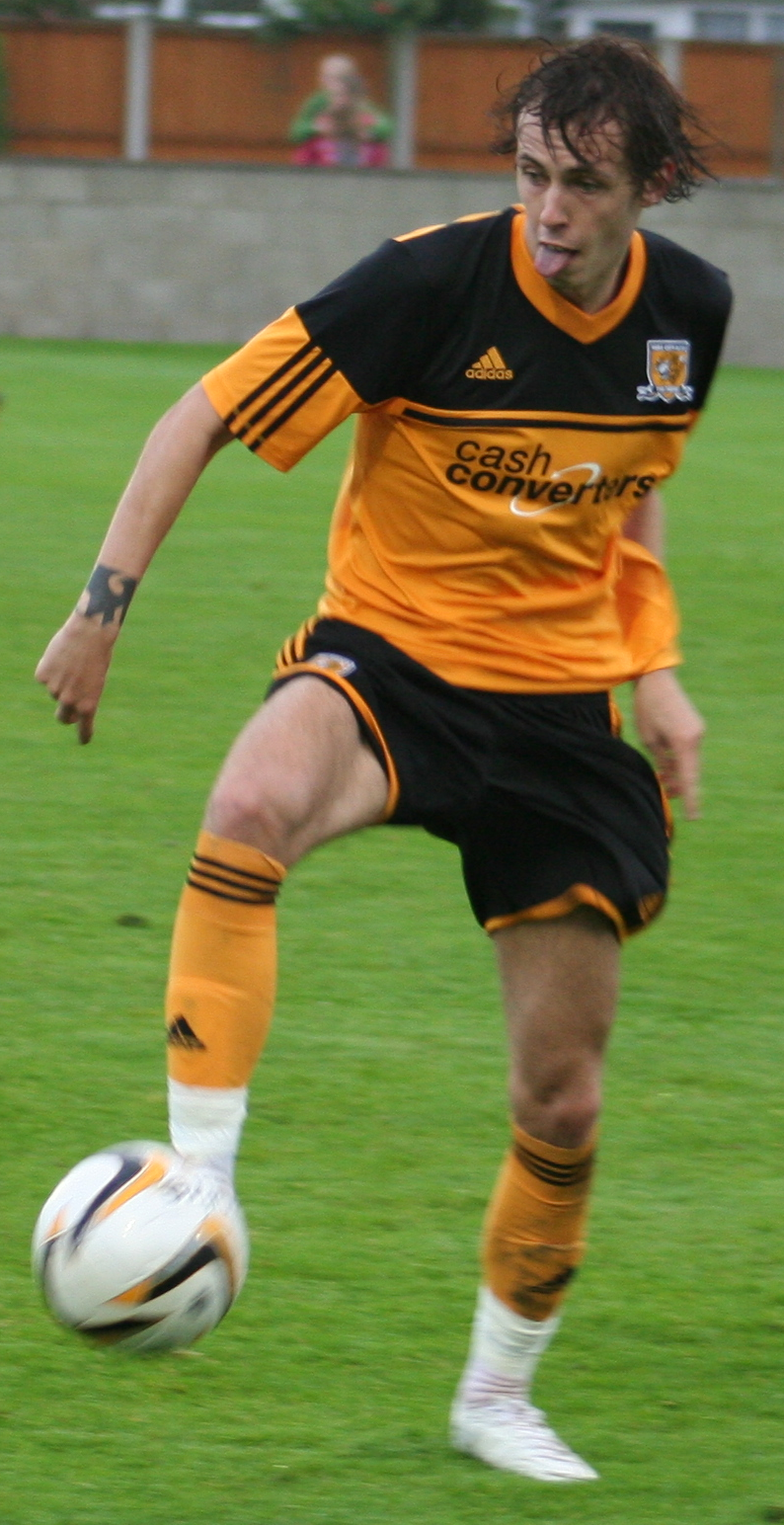 Jamie Devitt. Image cropped from original at flickr.